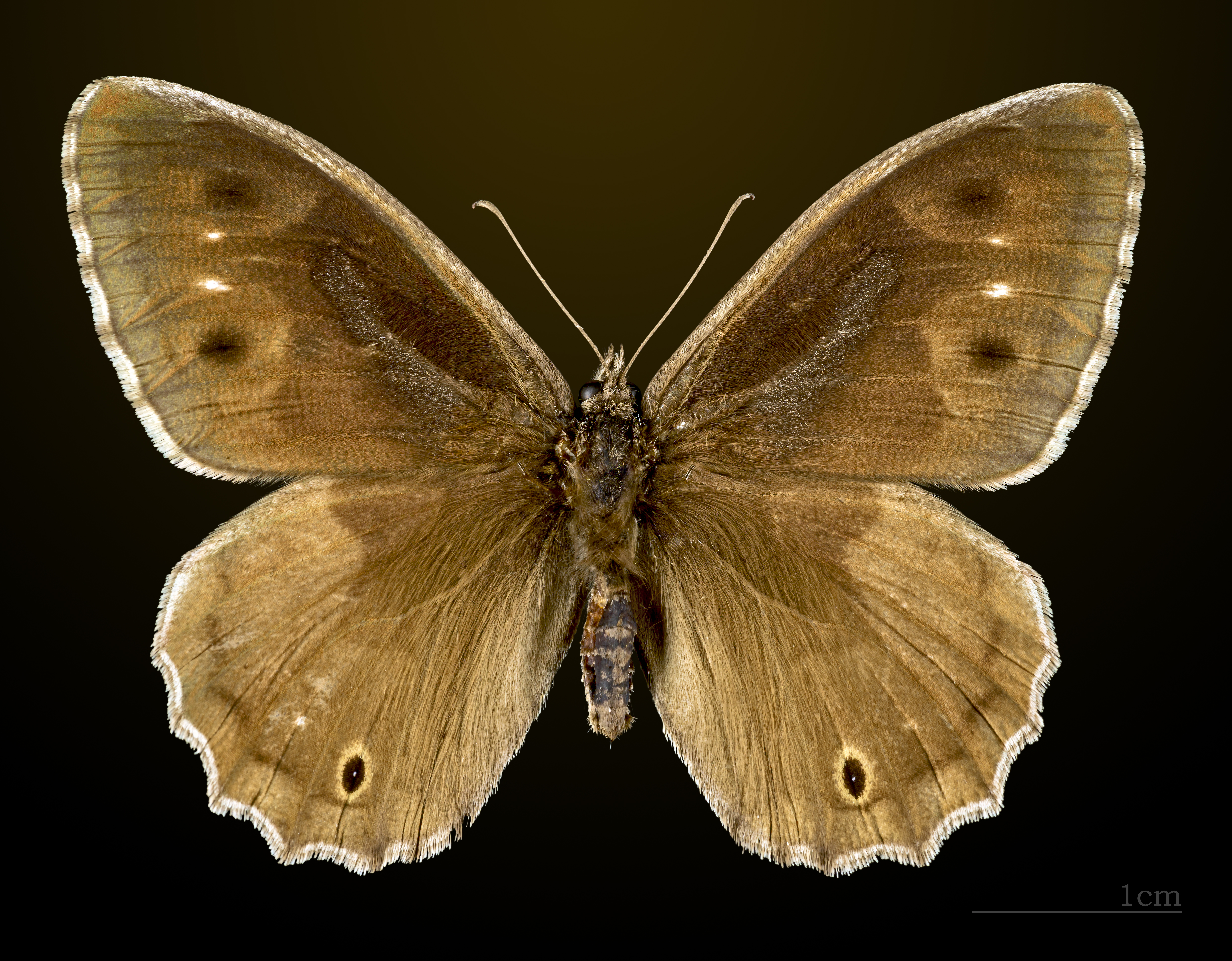 Tree Grayling ♂ - Dorsal side Locality: Concots, Lot, France